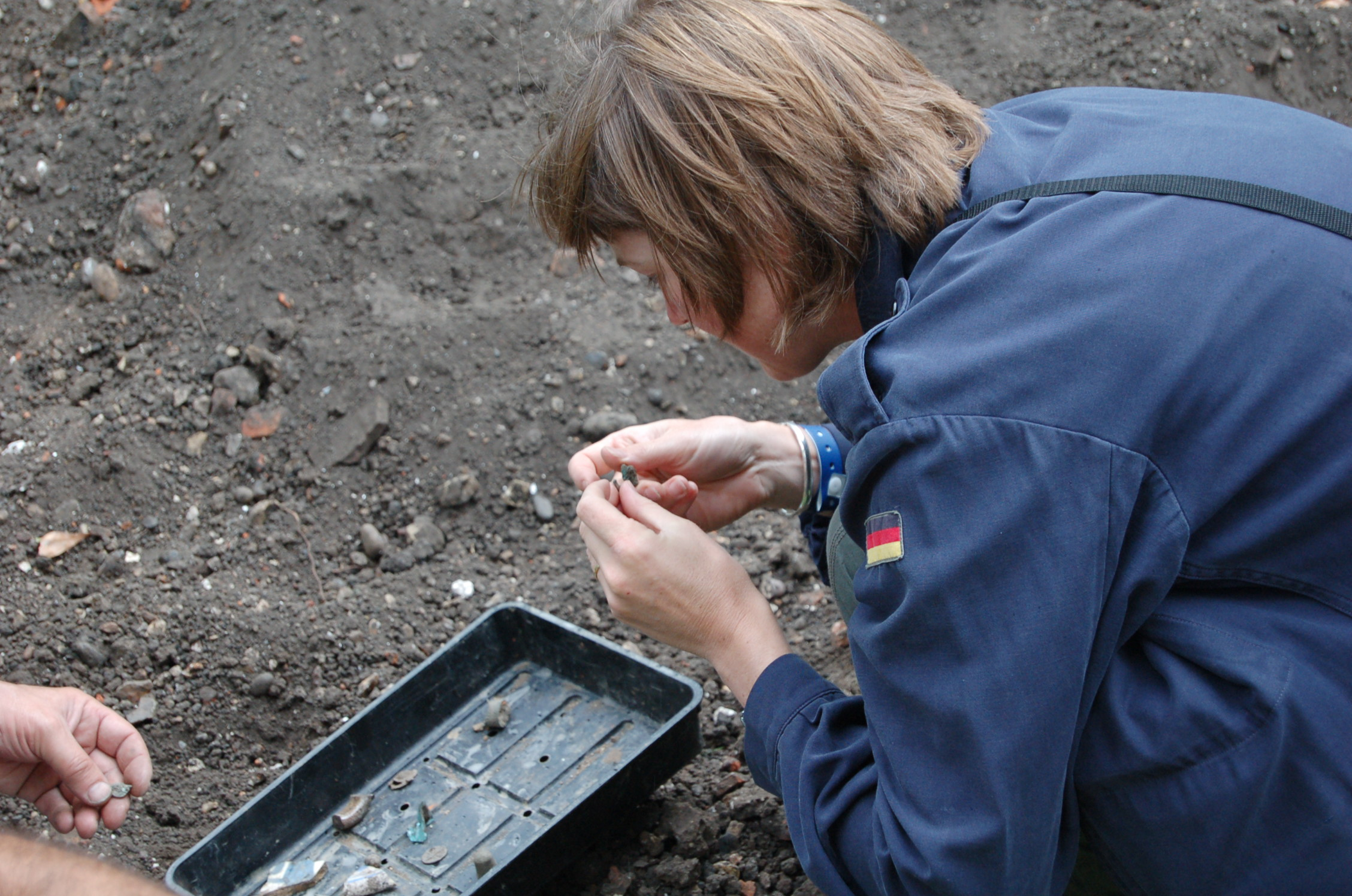 Time Team excavation in Lincoln's Inn Fields. This was added from the site called under the name portableantiquities. See source for details.